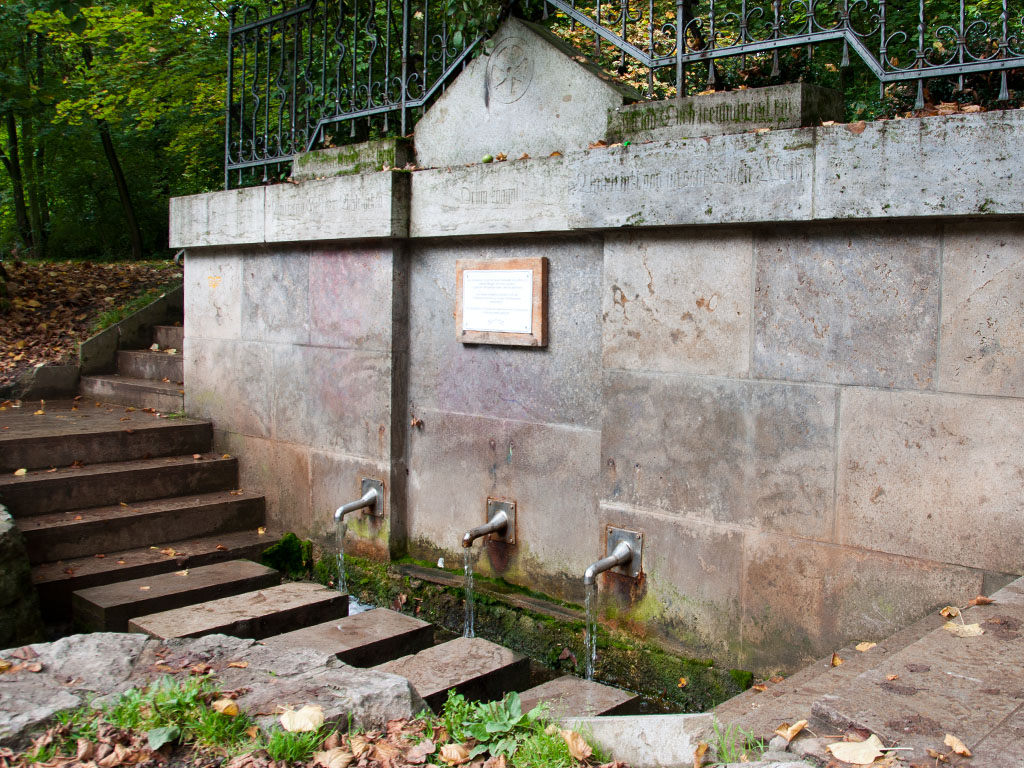 Dreienbrunnen spring in the Luisenpark